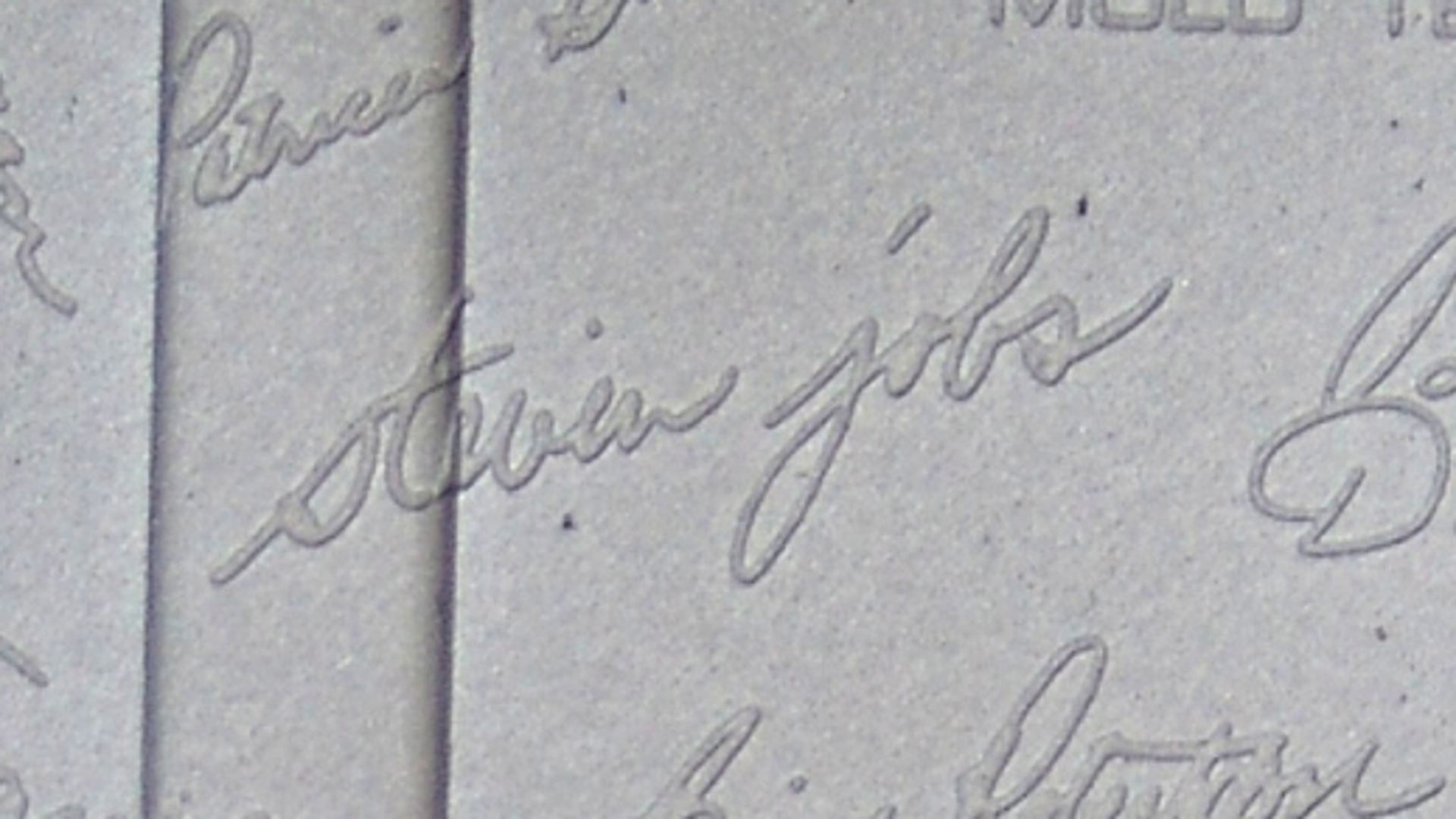 The signature of Steven Jobs as manufactured into the inside of the case of the original Macintosh computer, sold in 1984. The date engraved onto the part itself ("APPLE P/N 810-0374") is February 10, 1982. (GIMP edit to crop, resize and increase contrast.)